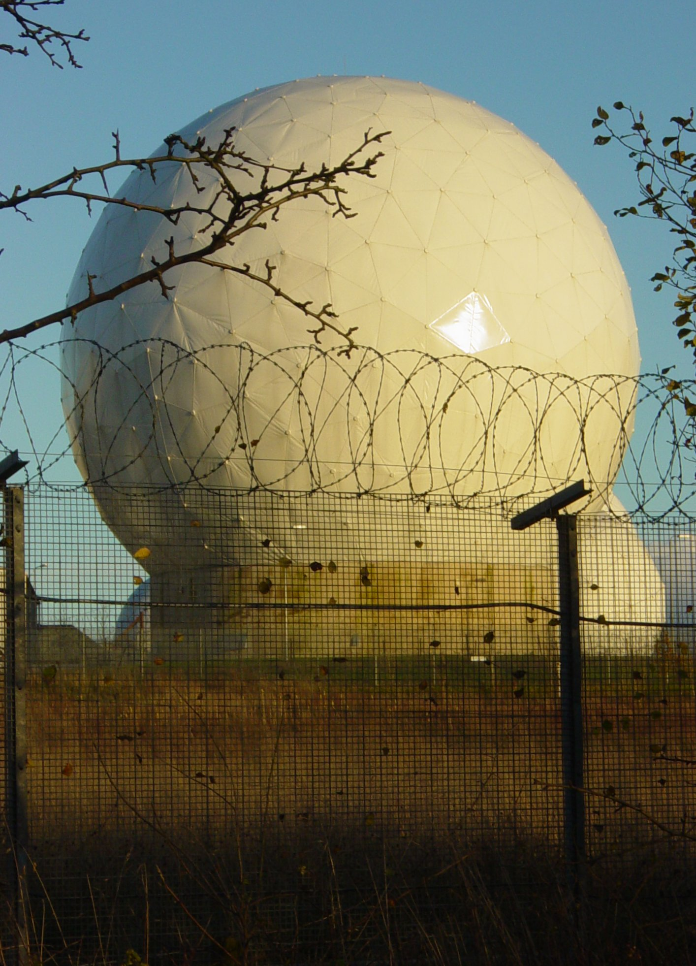 Radome at Menwith Hill, Yorkshire, November 2005.